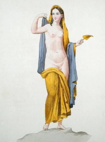 A fresco of Hermaphroditus in Herculaneum.